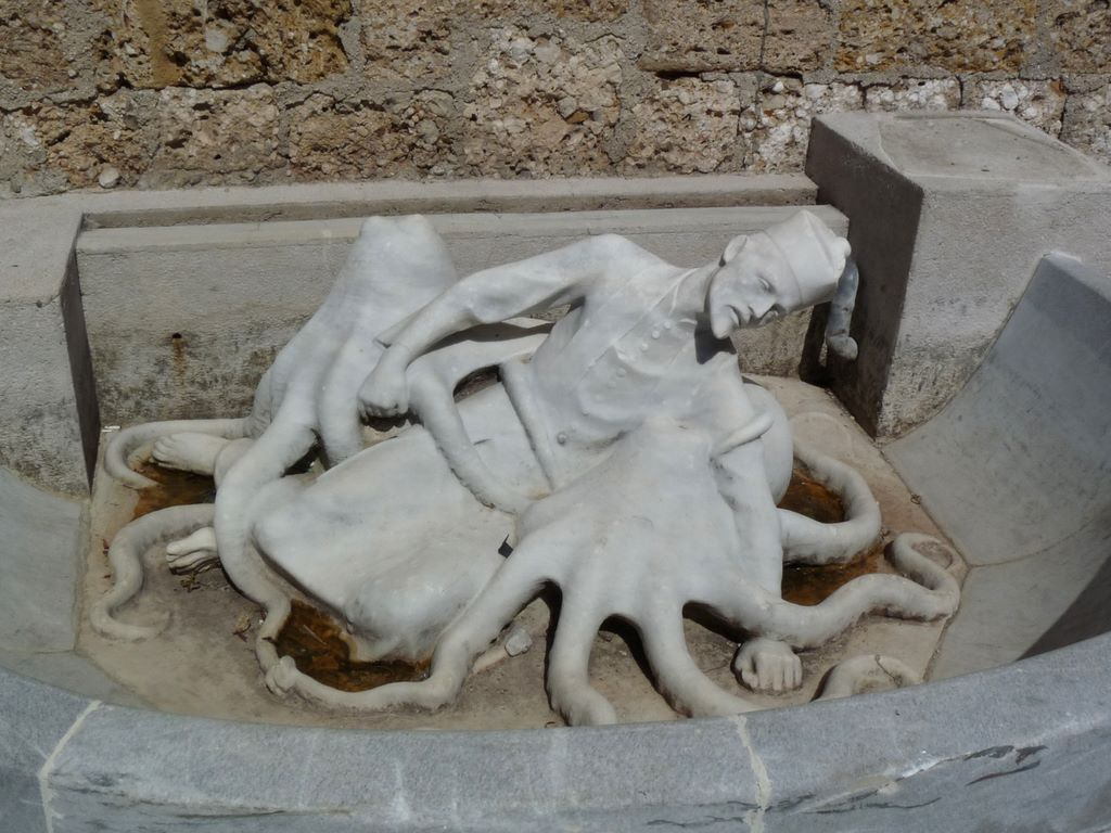 St. John of Nepomuk Fountain next to St. Cantianus and Companions Church in Kranj (Slovenia).